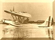 Italian CANT Z.501 flying boat